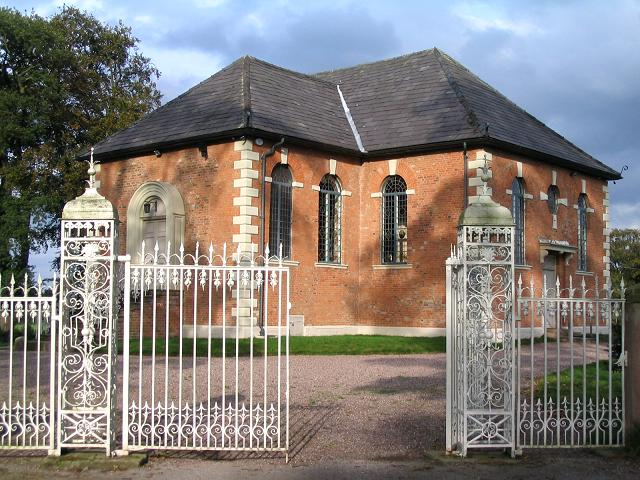 St Nicholas' chapel in the grounds of Cholmondeley Castle, Cheshire, seen from the southwest